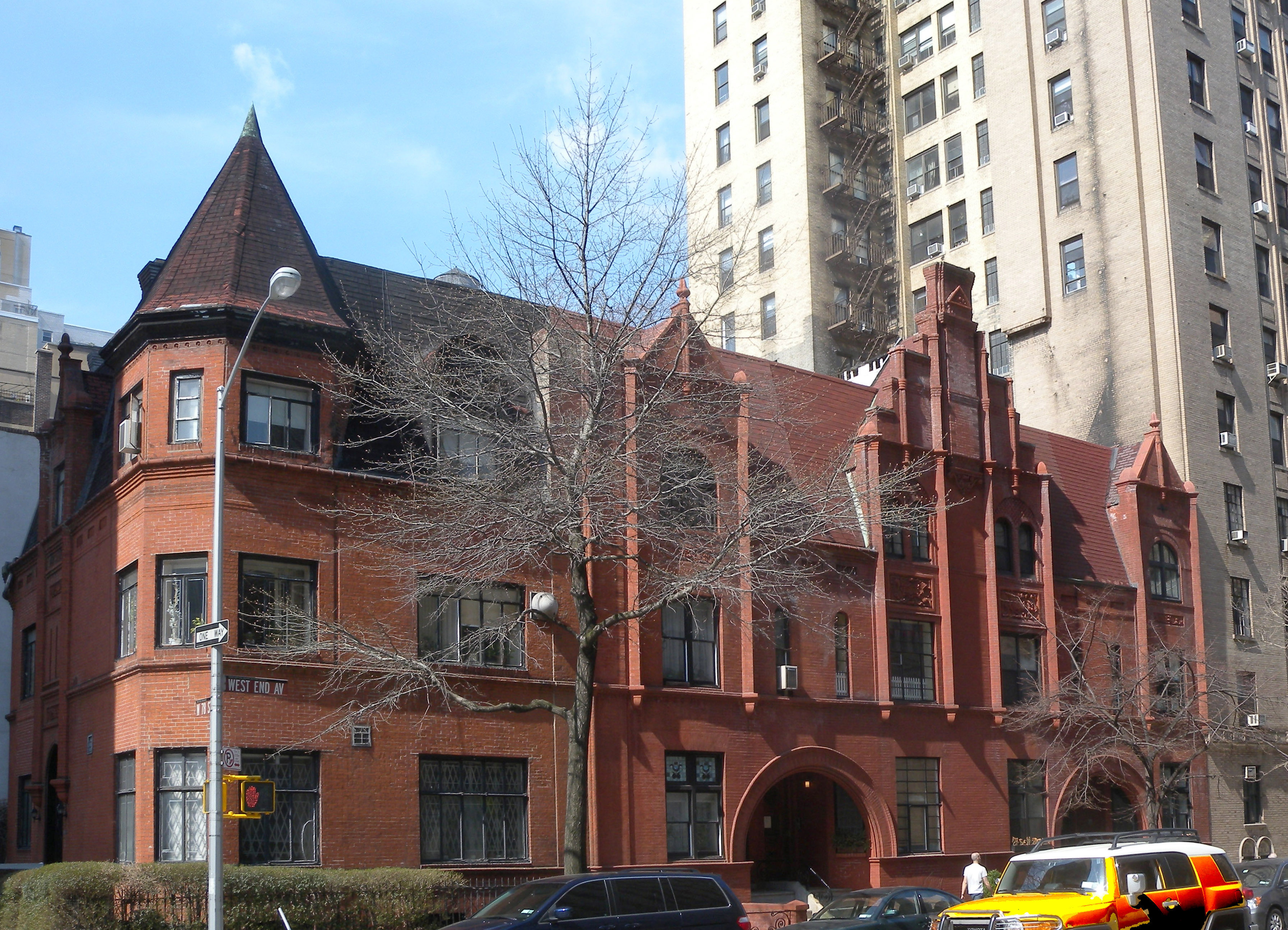 Looking northwest across West End Avenue and 78th Street at 381 through 389 West End Avenue on a sunny afternoon. Northernmost building of West End-Collegiate Historic District, designated 1984. NYCLPC guidebook map 13.